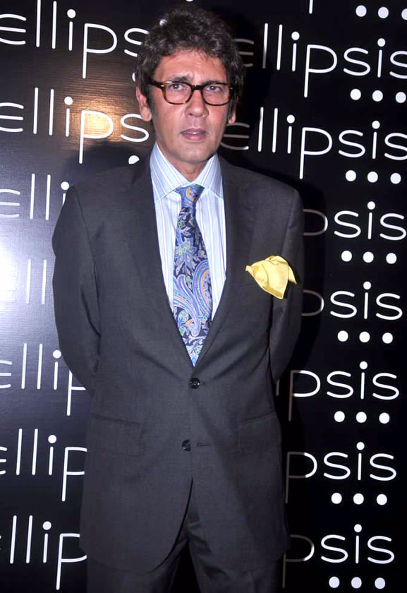 Kumar Gaurav at Ellipsis launch hosted by Arjun Khanna